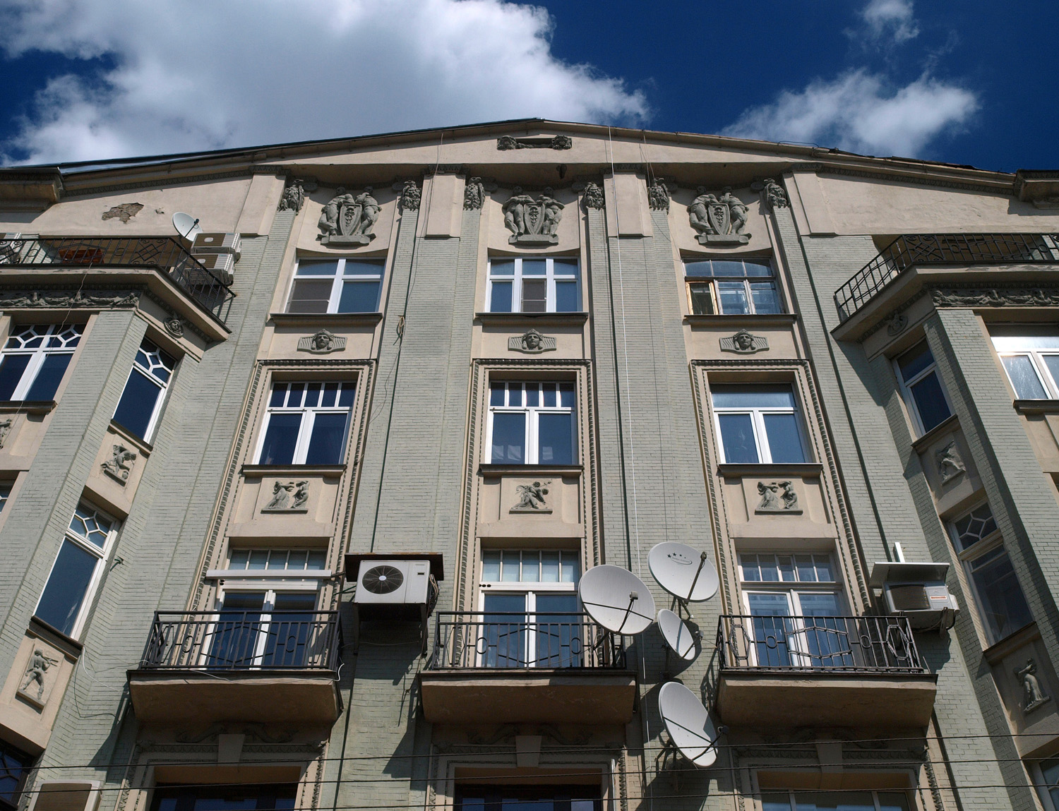 1A, Chaplygina St., Moscow